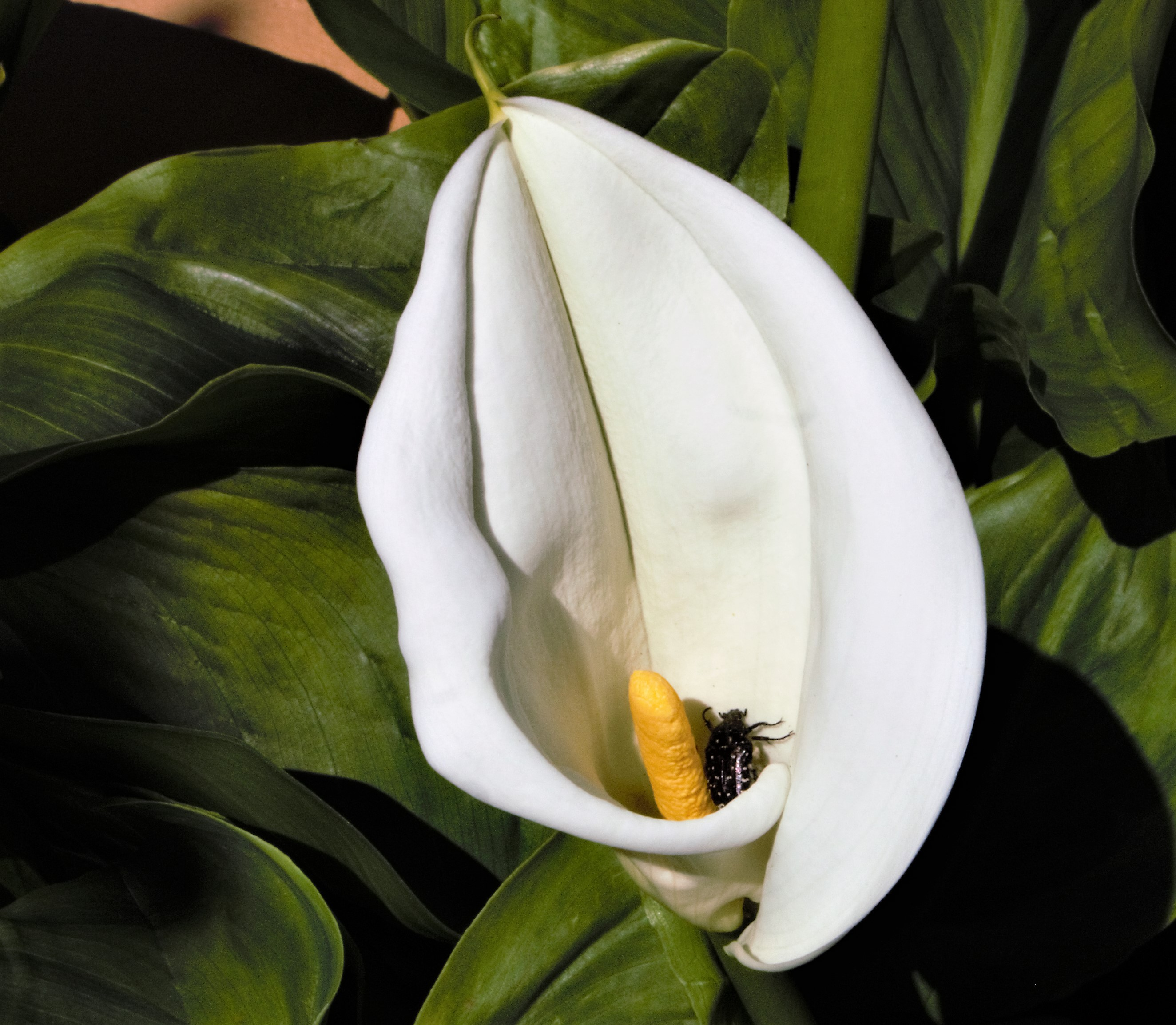 Template:Weiße Zantedeschia aethiopica.